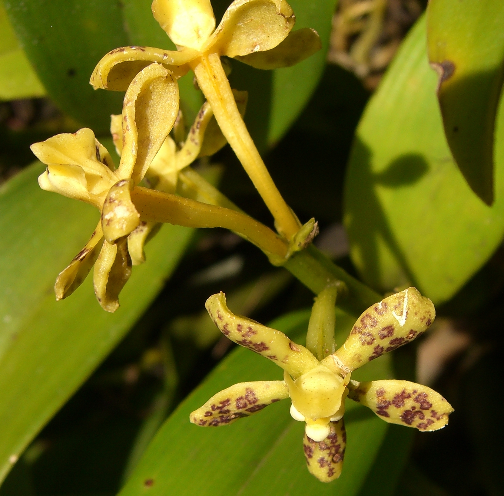 Please report references to .